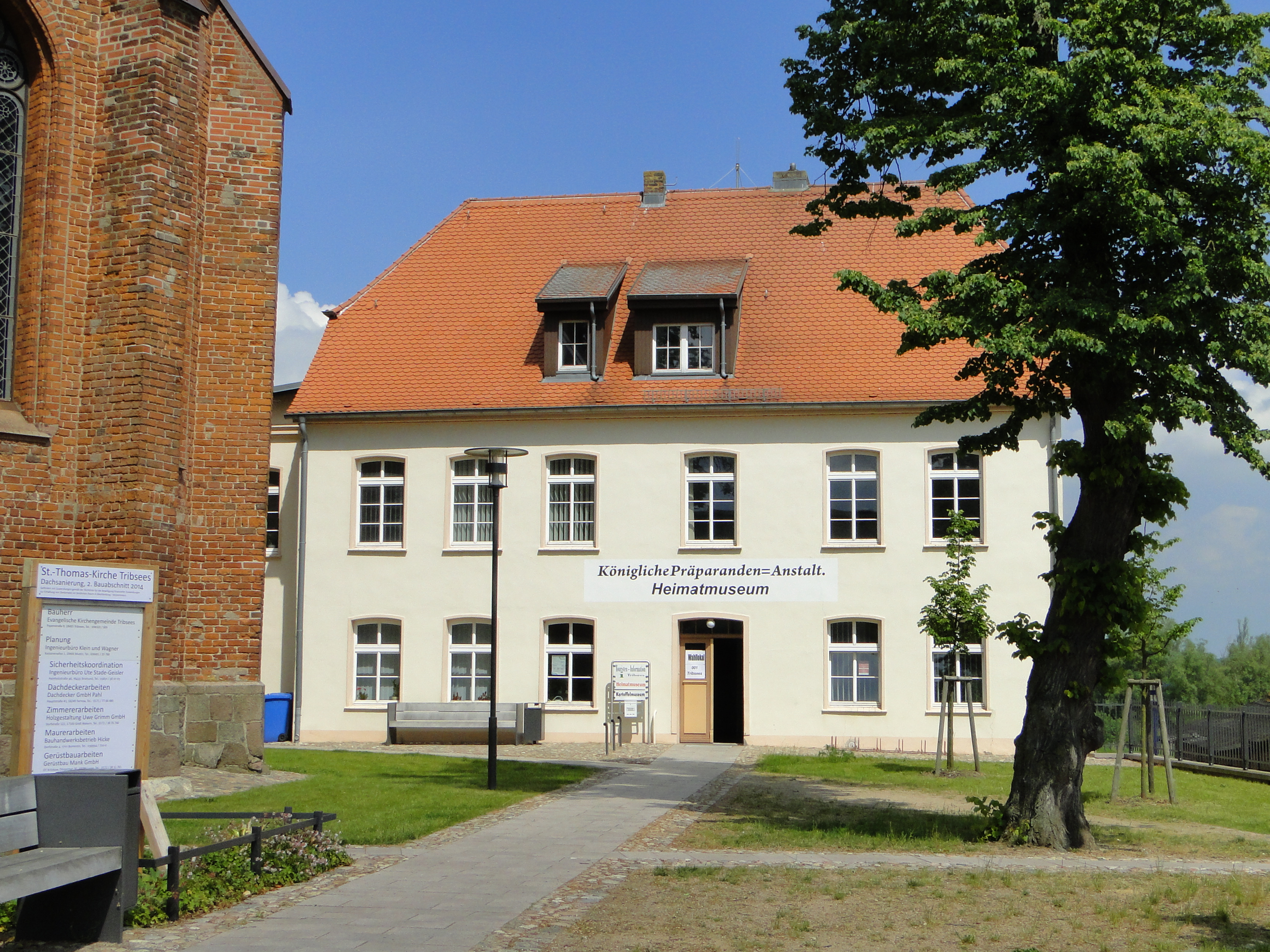 Karl-Marx-Straße 68 in Tribsees, district Vorpommern-Rügen, Mecklenburg-Vorpommern, Germany